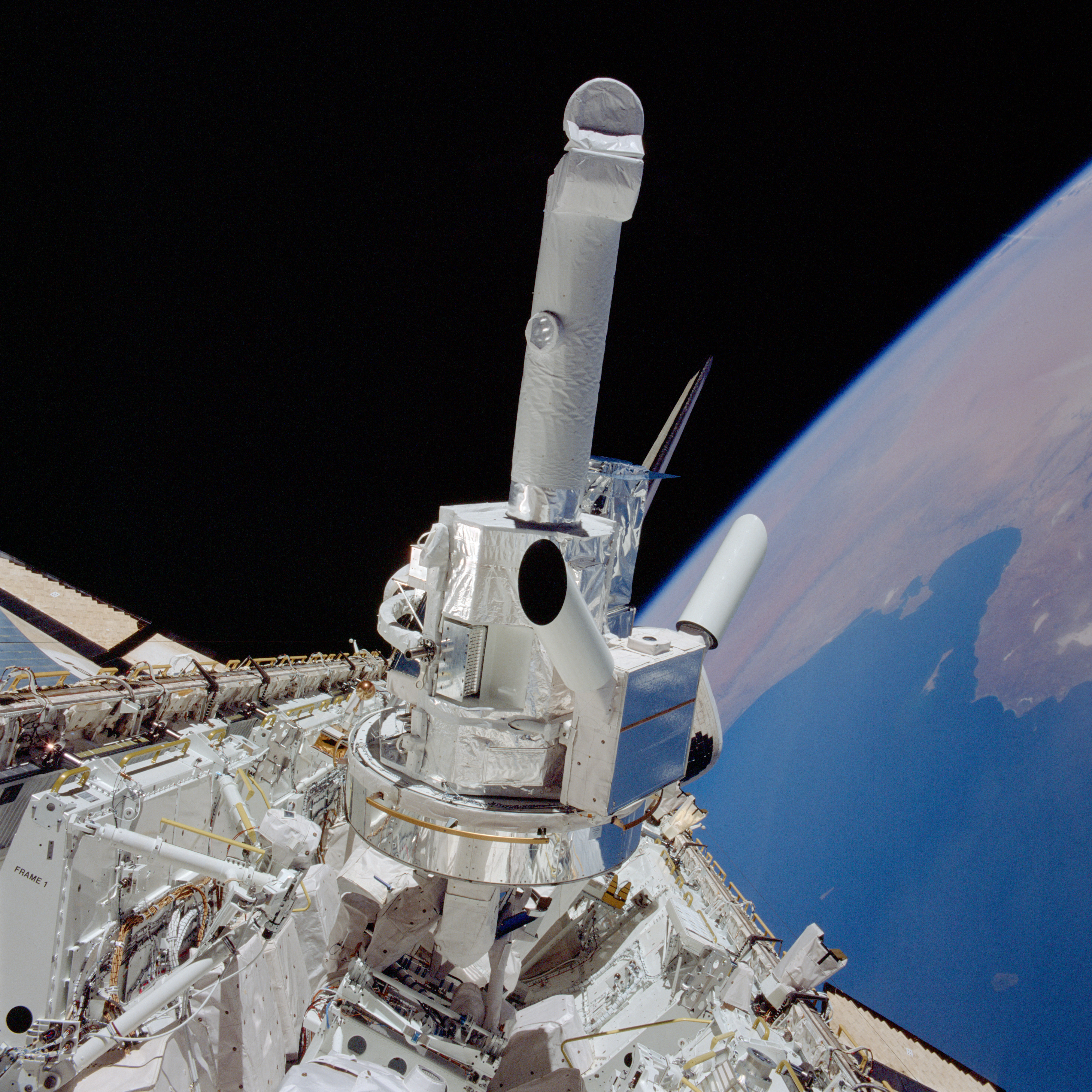 View of the Spacelab 2 pallet in the open payload bay. The solar telescope on the Instrument Pointing System (IPS) is fully deployed. The Solar UV high resolution Telescope and Spectrograph are also visible.